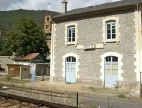 Train station of Olette, in the Pirenées Orientales in France